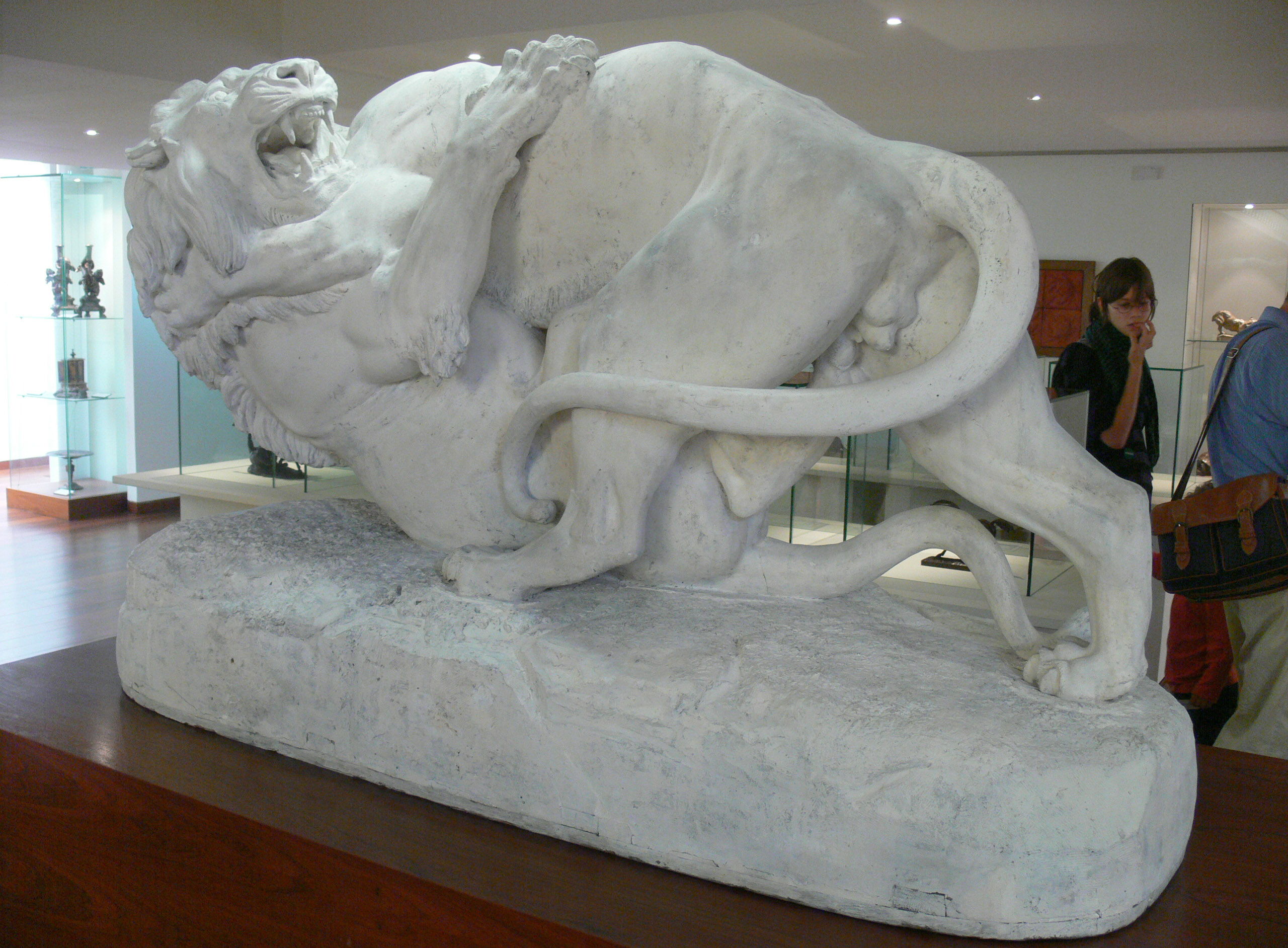 Tiger fighting against lion, from Emile-Joseph-Alexandre Gouget. Dépôt du fonds national d'art contemporain, en 1903.